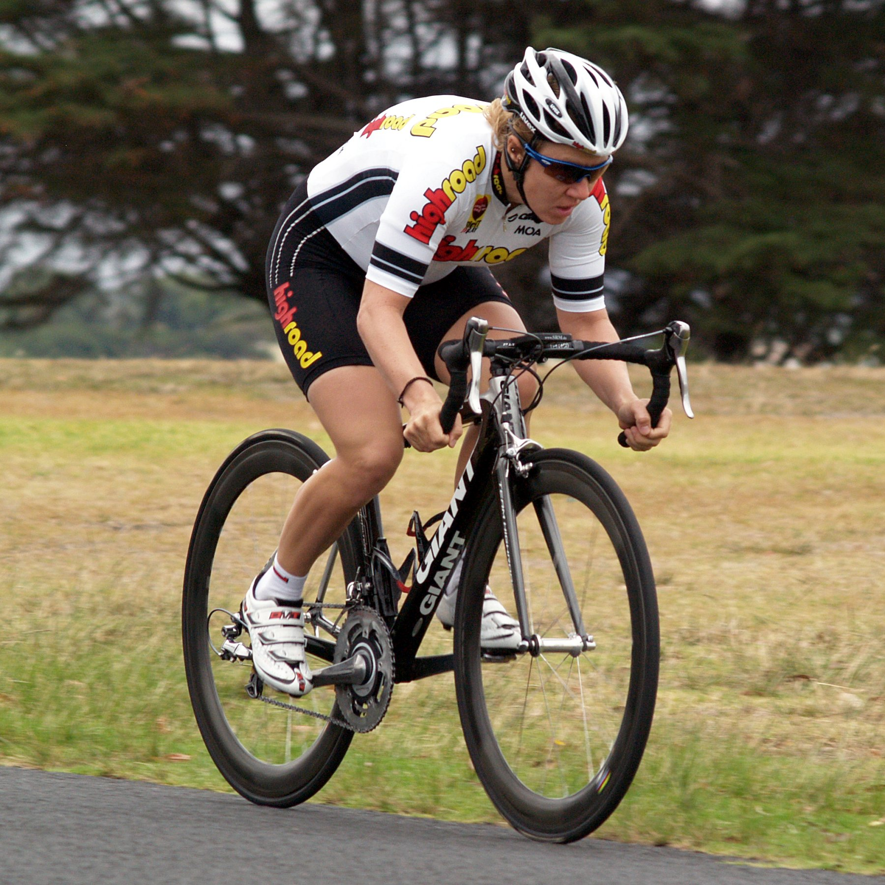 German cyclist Ina-Yoko Teutenberg (Team High Road) during the Stage 1 time trial of the 2008 Geelong Tour, Portarlington, Australia.